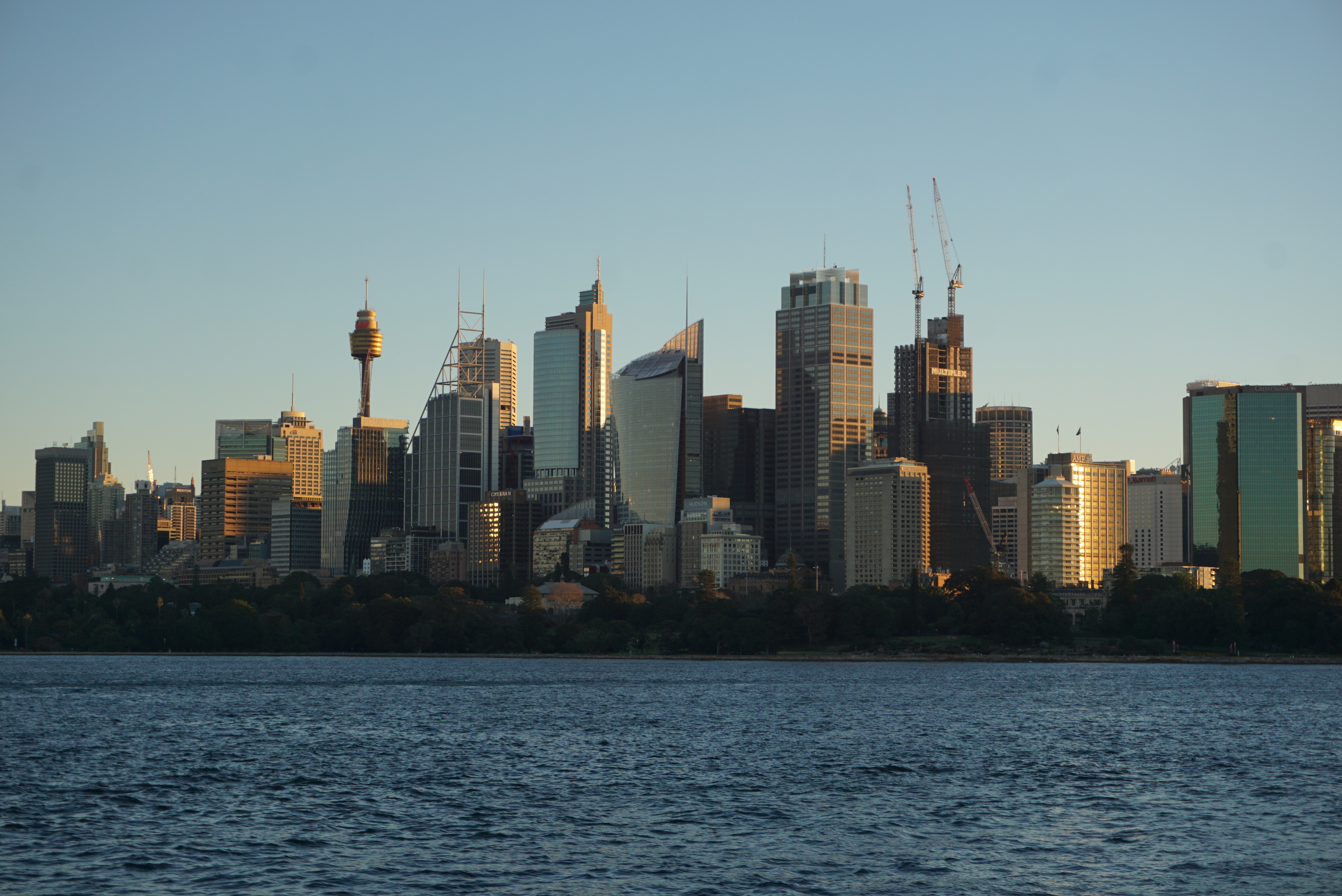 Sydney Skyline from Manly Ferry